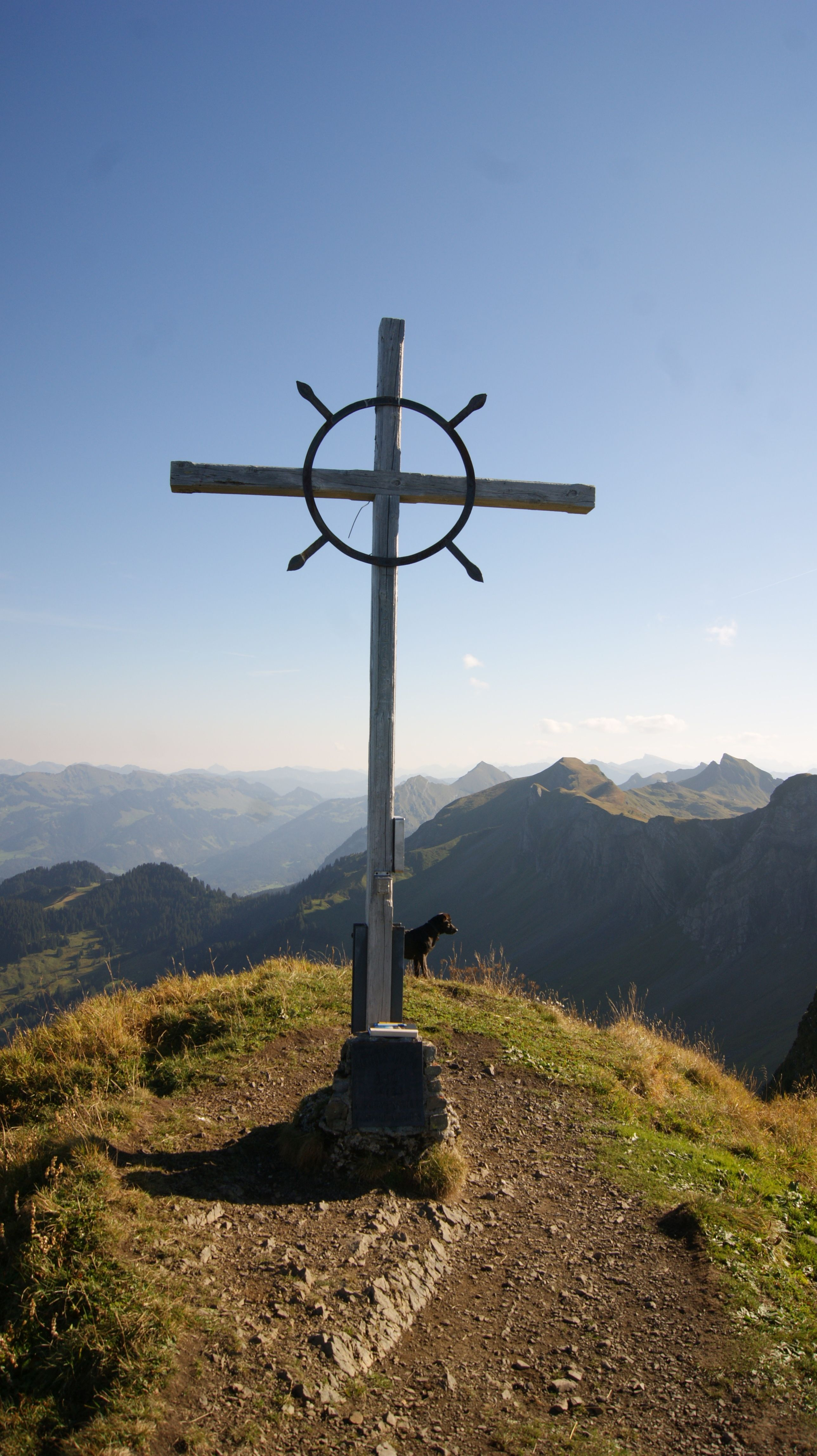 Suenser Spitze (2061 masl) in Dornbirn, Vorarlberg, Austria. Cross on the summit of the mountain. In the background the Middle-Bregenzerwald.